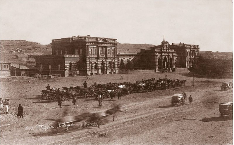 Alexsander Roinashvili. Tbilisi: Railroad station